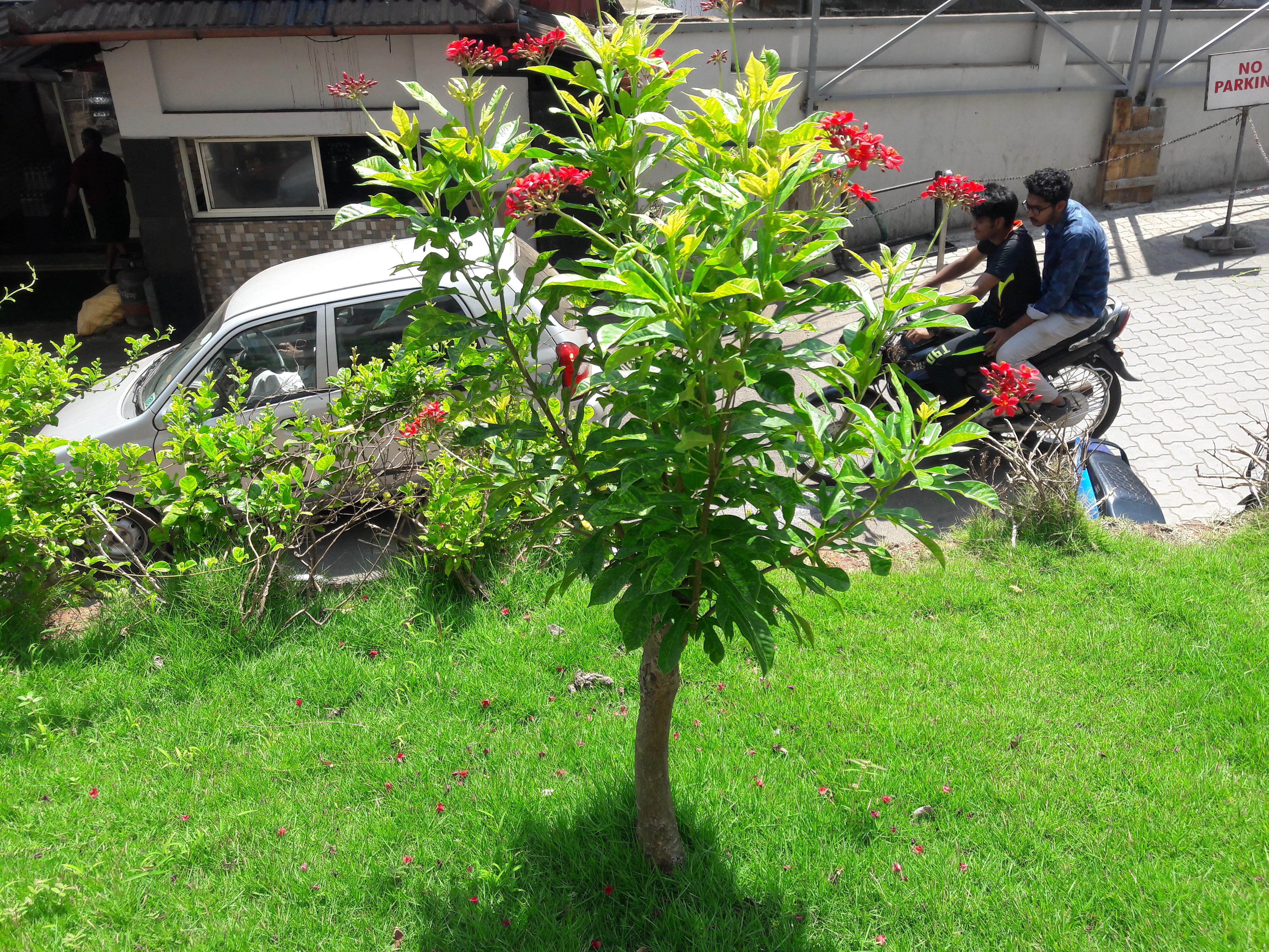 Jatropha plant